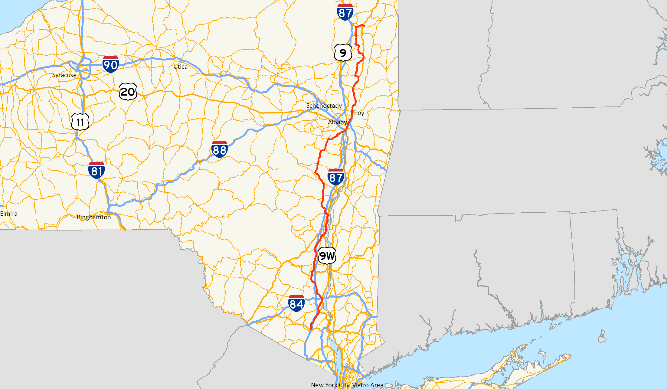 Map of New York State Route 32